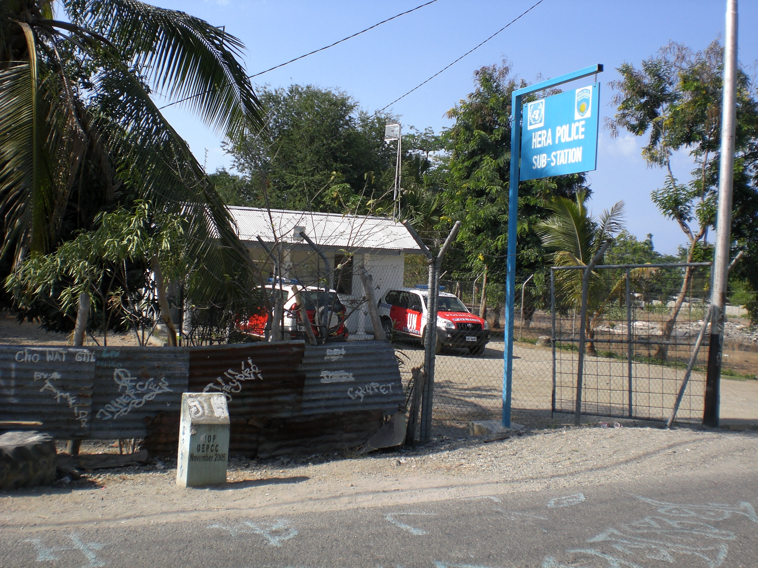 UN Police station in Hera/Timor-Leste